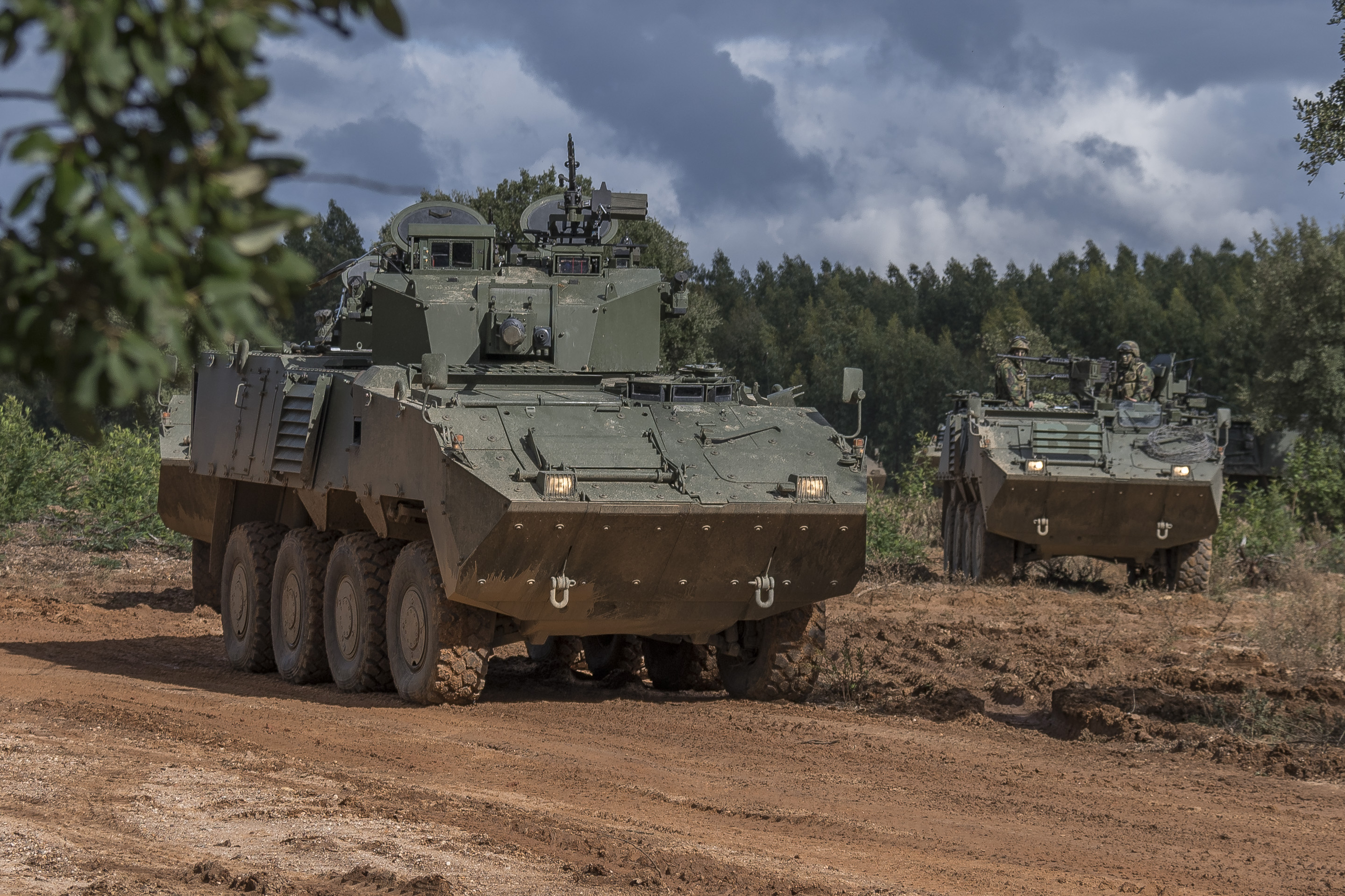 Portuguese mechanized infantry conducting offensive operations in Santa Margarida, Portugal, during JOINTEX 15 as part of NATO’s exercise TRIDENT JUNCTURE 15 on October 29, 2015 Photo: Sgt Sebastien Frechette, PA Technician VL06-2015-381-13